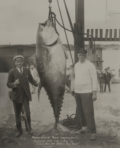 The largest tuna ever caught with rod and line (680 lbs.), by J.K.L. Ross (left) at St. Ann's Bay, Nova Scotia, 1913. Digital Collection: Freshwater and Marine Image Bank